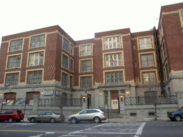 Looking east across Bushwick Avenue at Brooklyn Latin on a cloudy late afternoon.